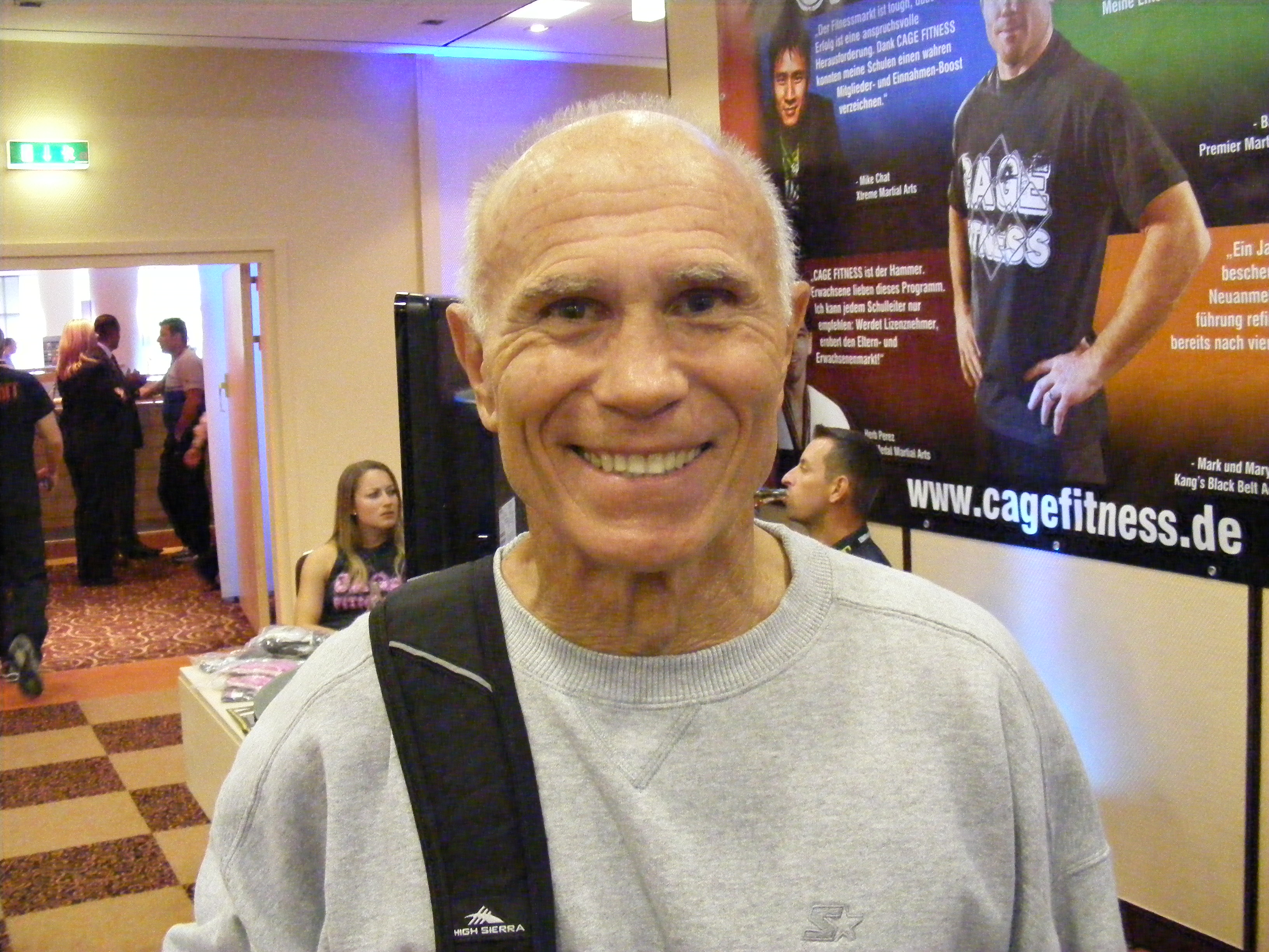 Bill Wallace ,Karate World Champion in Dortmund , Germany